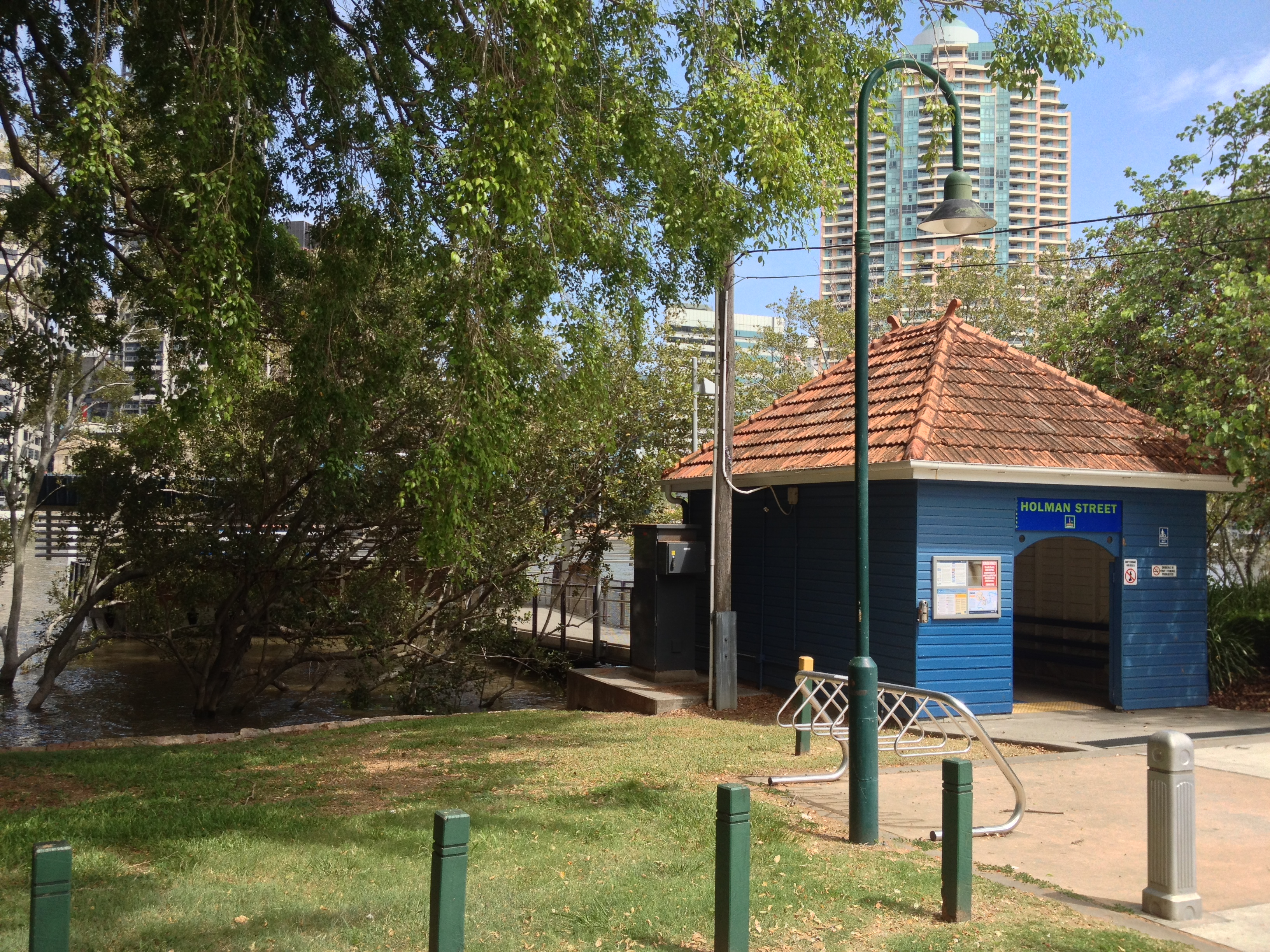 Holman Street ferry wharf